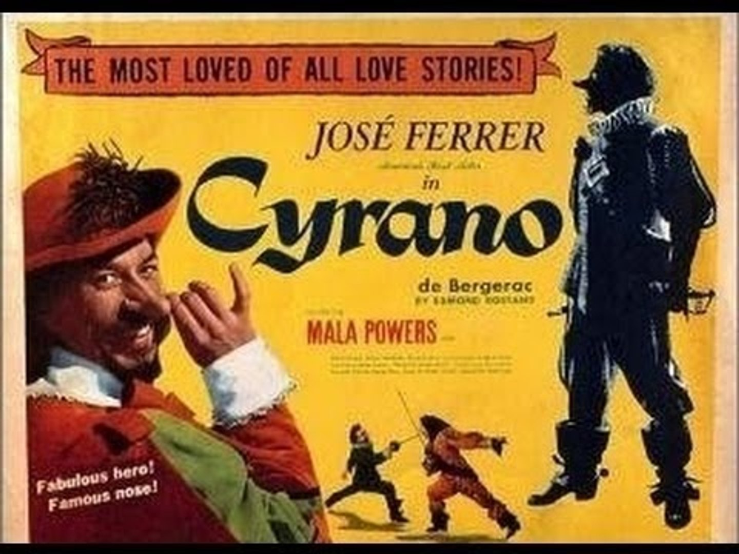 Theatrical release poster. Public domain.